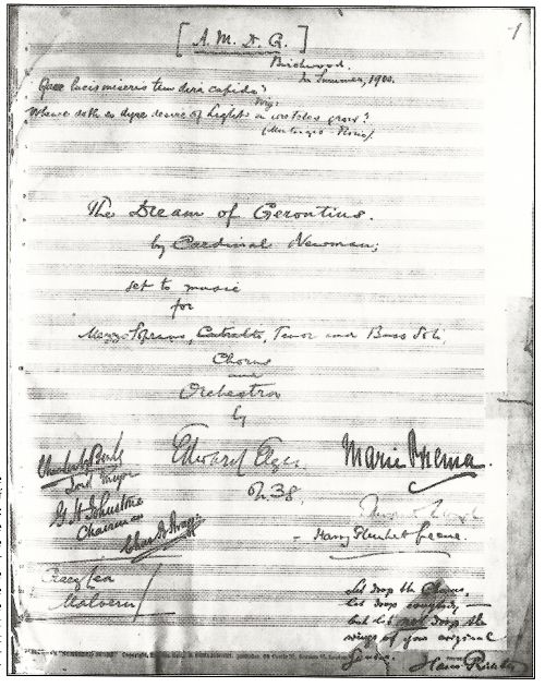 Front page of Edward Elgar's manuscript score of The Dream of Gerontius (1900), reproduced in the liner notes to EMI CD CMS 7 63185 2, 1986.